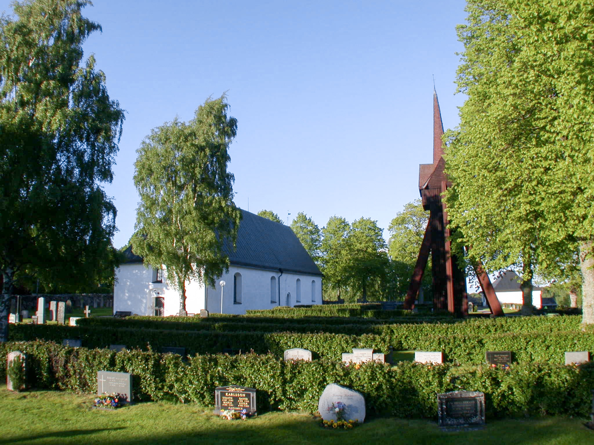 Västra Ny church, Sweden. Photo by Riggwelter June 1, 2006.